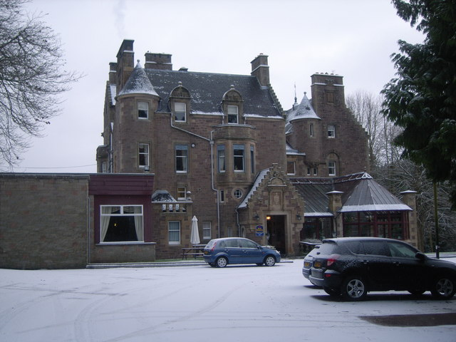 Cartland Bridge Hotel I stayed here on Friday night. It is a nice hotel with good pub food and beer.